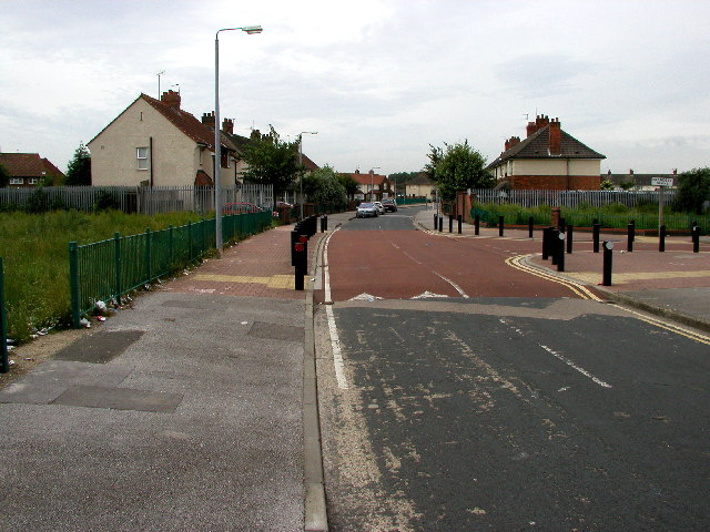 Lingdale Road, Greatfield Estate. Taken in a SW direction from MR: TA15163115